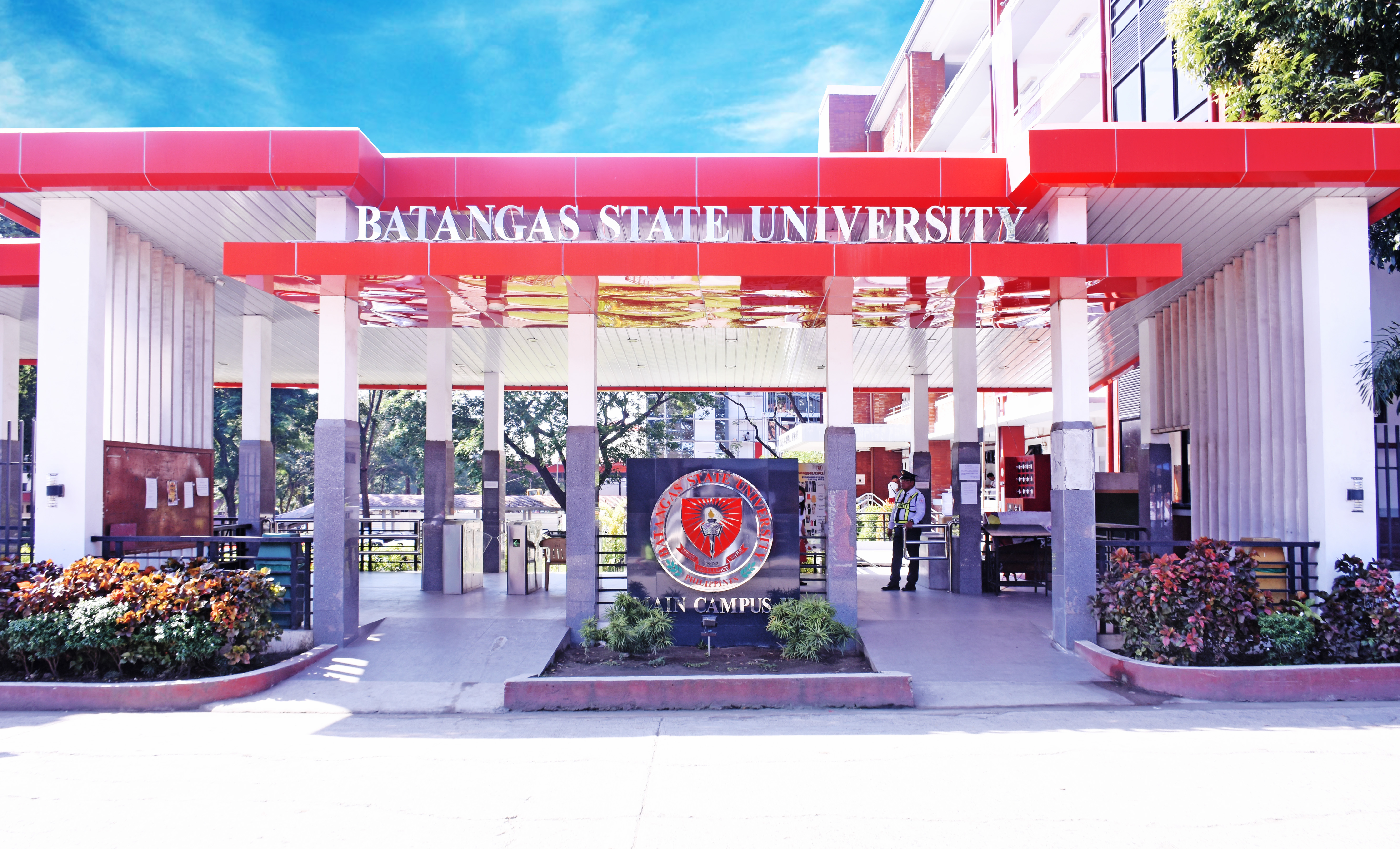 Batangas State University PB Main II Campus facade